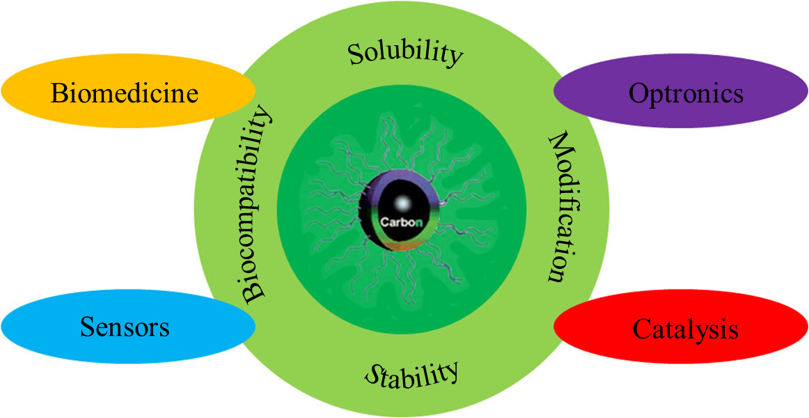 Applications of carbon quantum dots